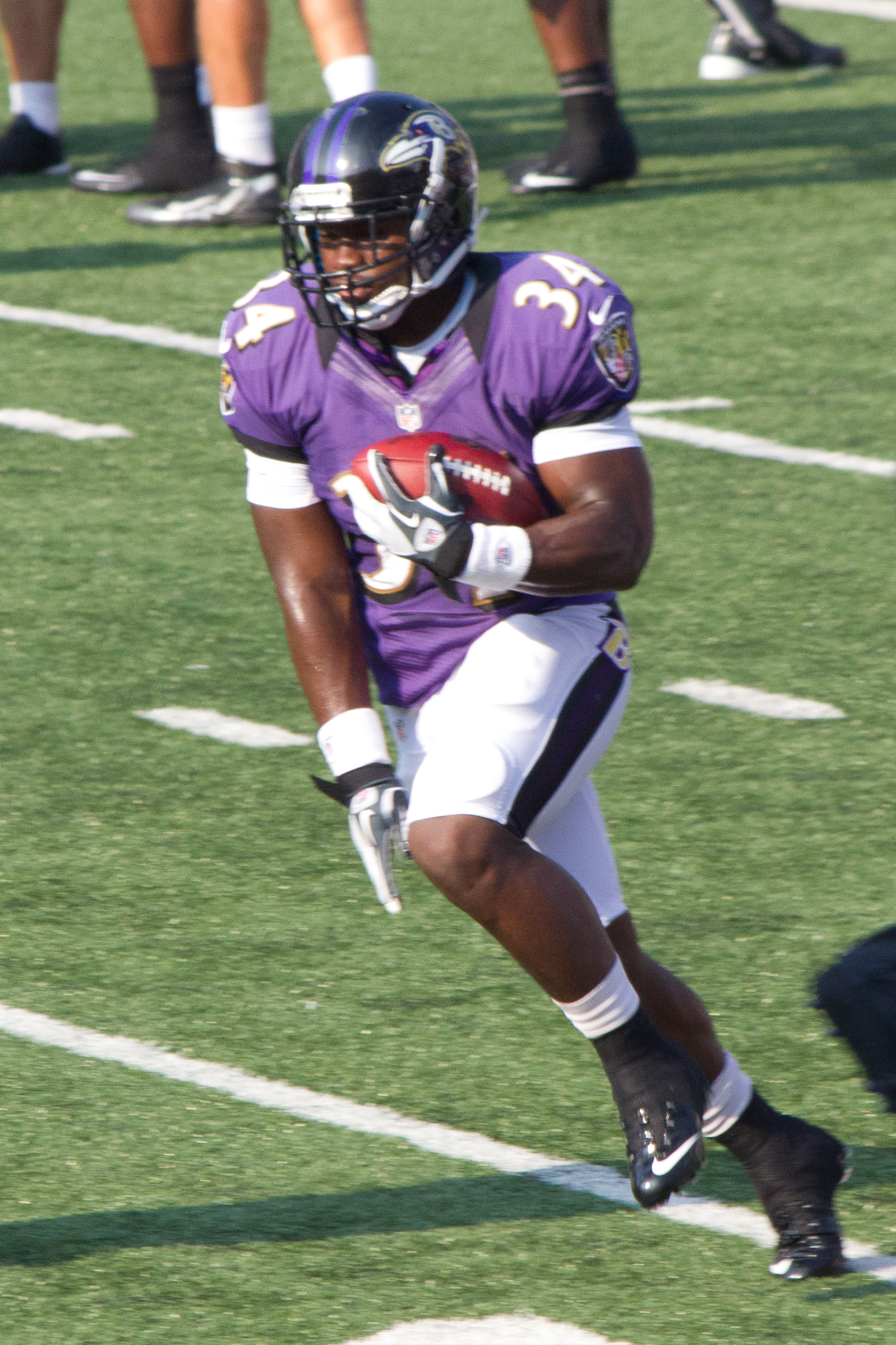 Bobby Rainey at Ravens M&T Bank Stadium practice in August 2012